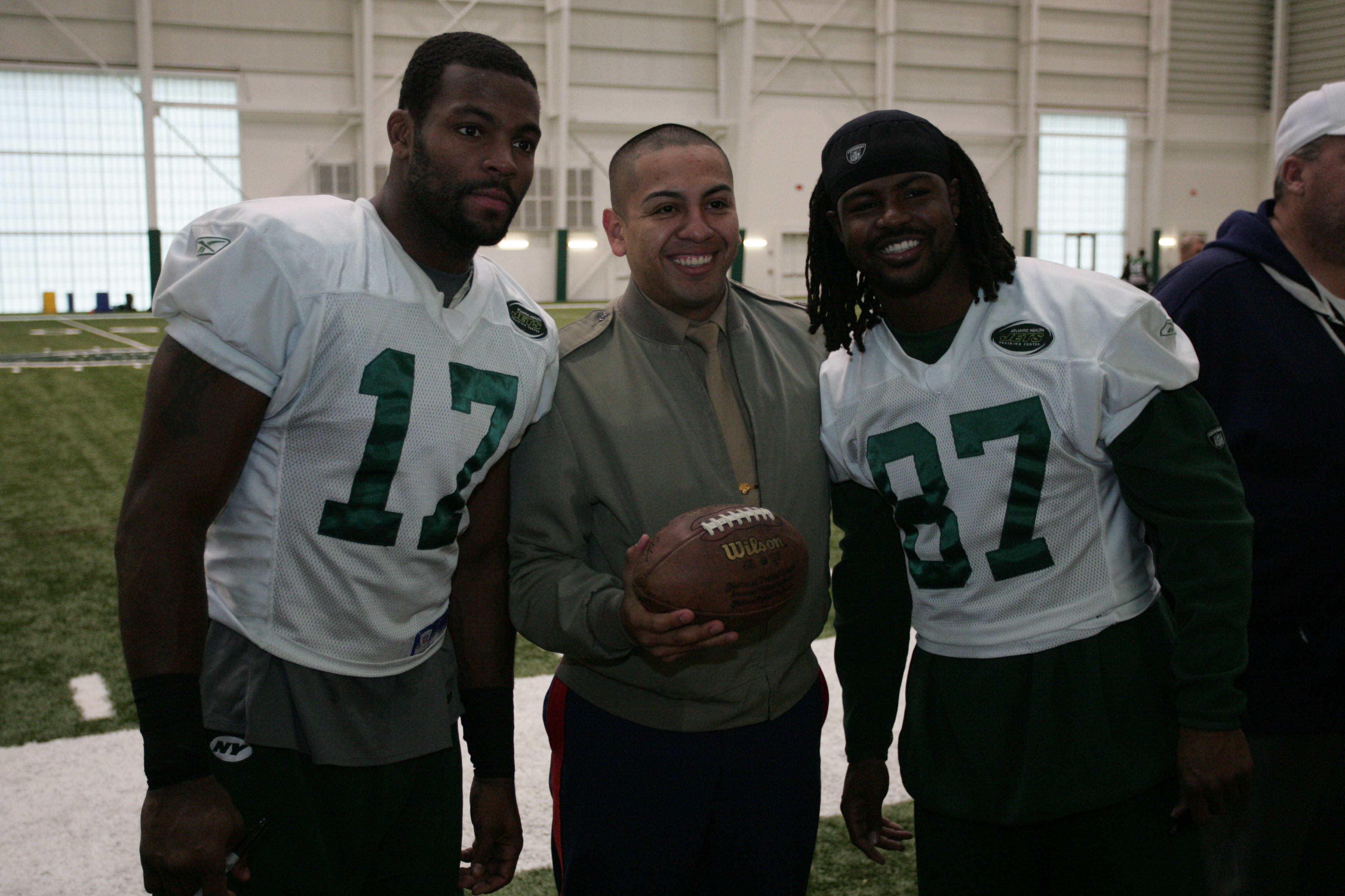 FLORHAM PARK, N.J. -- Marines from Recruiting Station New Jersey meet with Braylon Edwards, #17 wide receiver, New York Jets, and David Clowney, #87 wide receiver, during a tour of the team's practice facility Nov. 13. The team invited service members to their practice and Sunday the Jets will honor military veterans during their military appreciation day. (Official Marine Corps photo by Sgt. Randall A. Clinton)